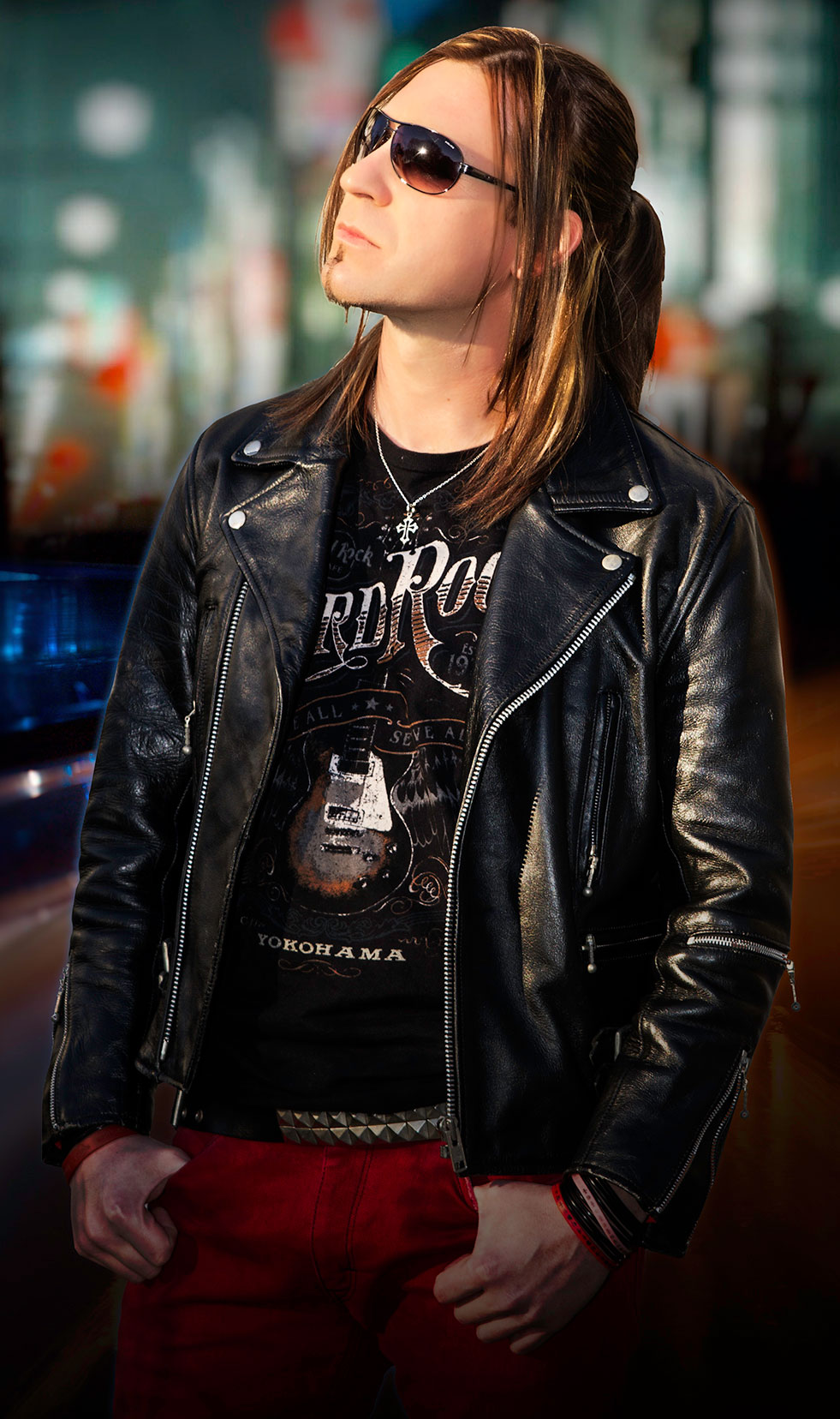 Ninezero, Australian rock/metal singer. Photographed in 2013.